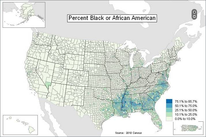 Black Population as a Percentage of County Population: 2010